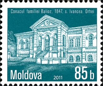 Stamps of Moldova